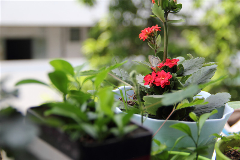 I grow erect stems and opposite oblong leaves, in glossy green and with edges tinted with red. My preferential temperature ranges from 59℉(15℃) to 77℉(25℃), favoring humus soil. Usually I am reproduced through cottage propagation or propagation by tissue.